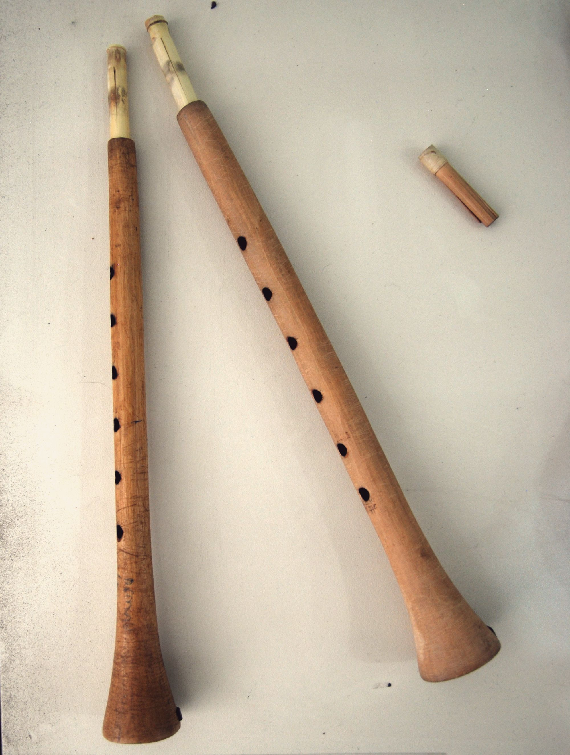 Pilili, State Museum of Georgian Folk Songs and Musical Instruments, Tbilisi